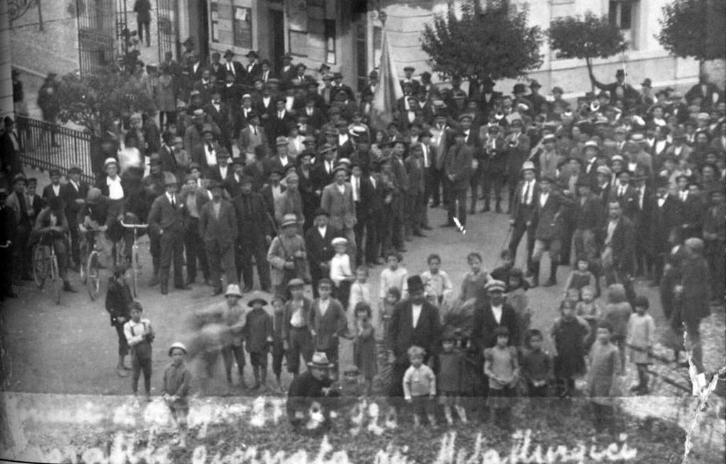 "Day of the metalworkers", Fornaci di Barga, Barga, 1920